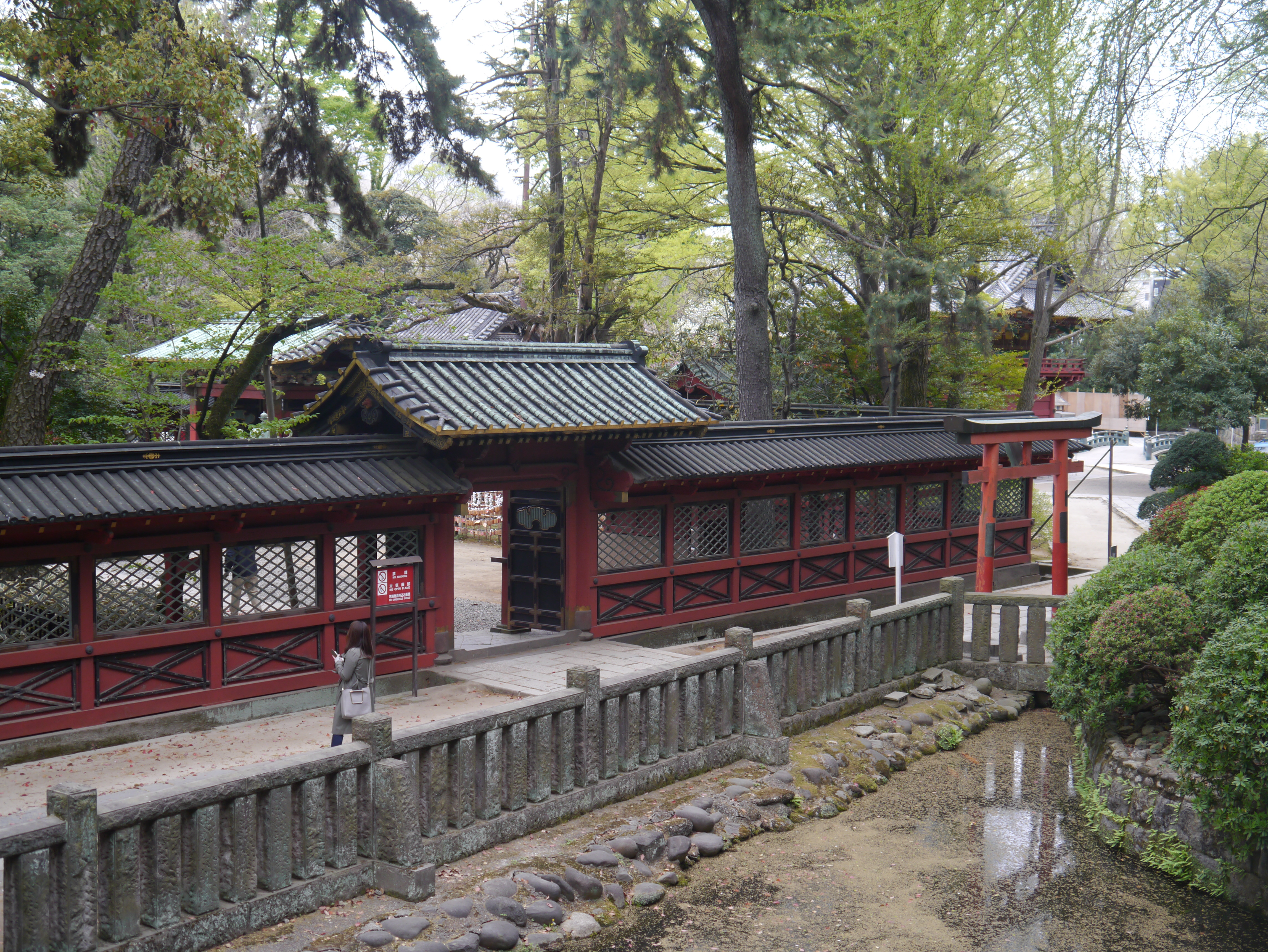 Exteriors of the Nezu Shrine, Tokyo/Tokyo Prefecture, Japan